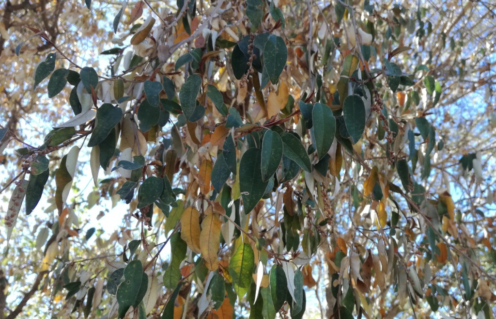 Croton gratissimus